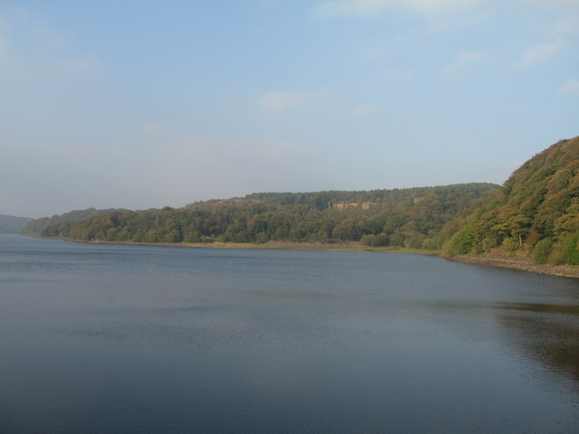 Anglezarke Reservoir Anglezarke Reservoir looking towards the quarries on the wooded hillside.